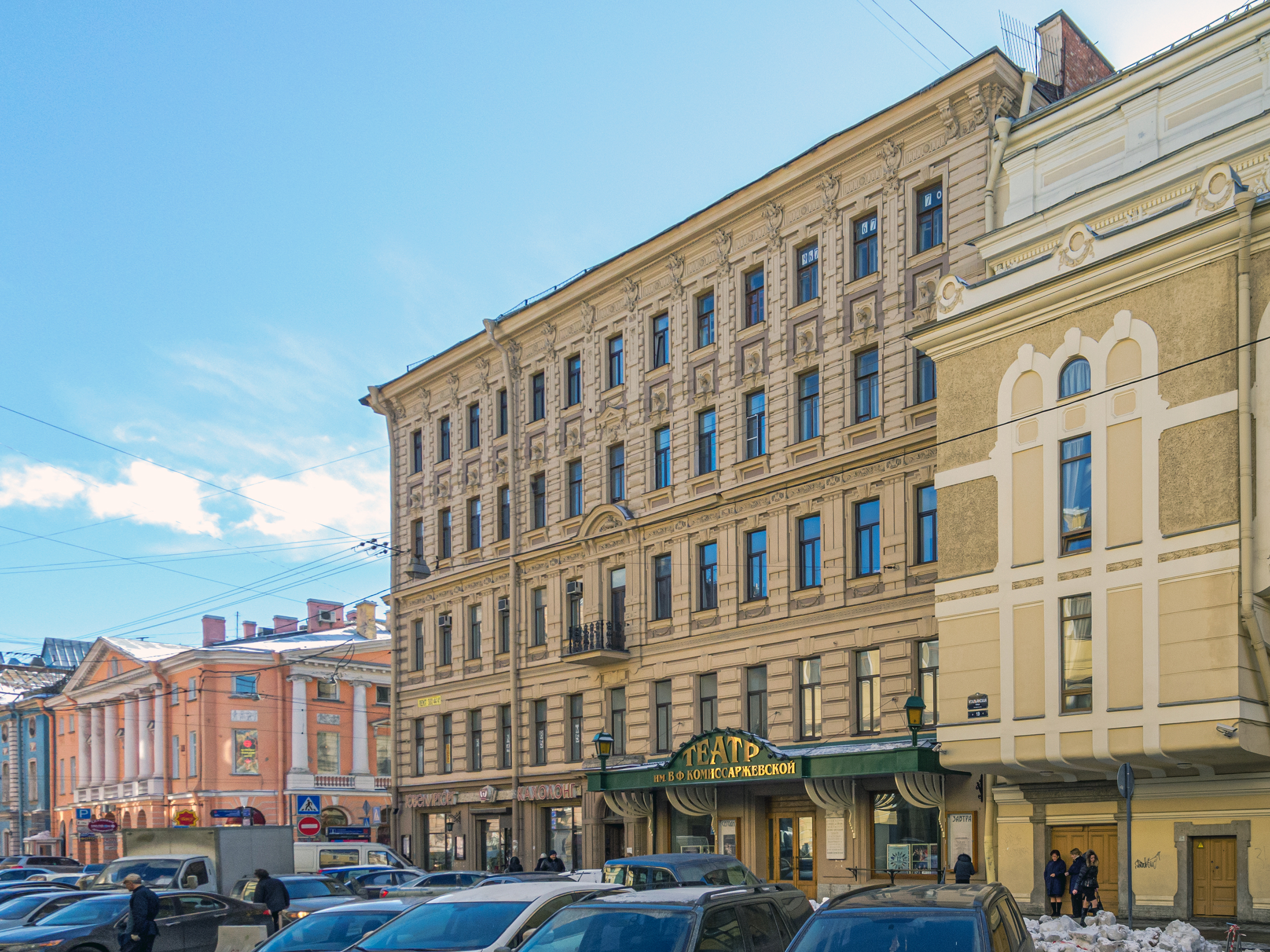 Italianskaya Street in Saint Petersburg.